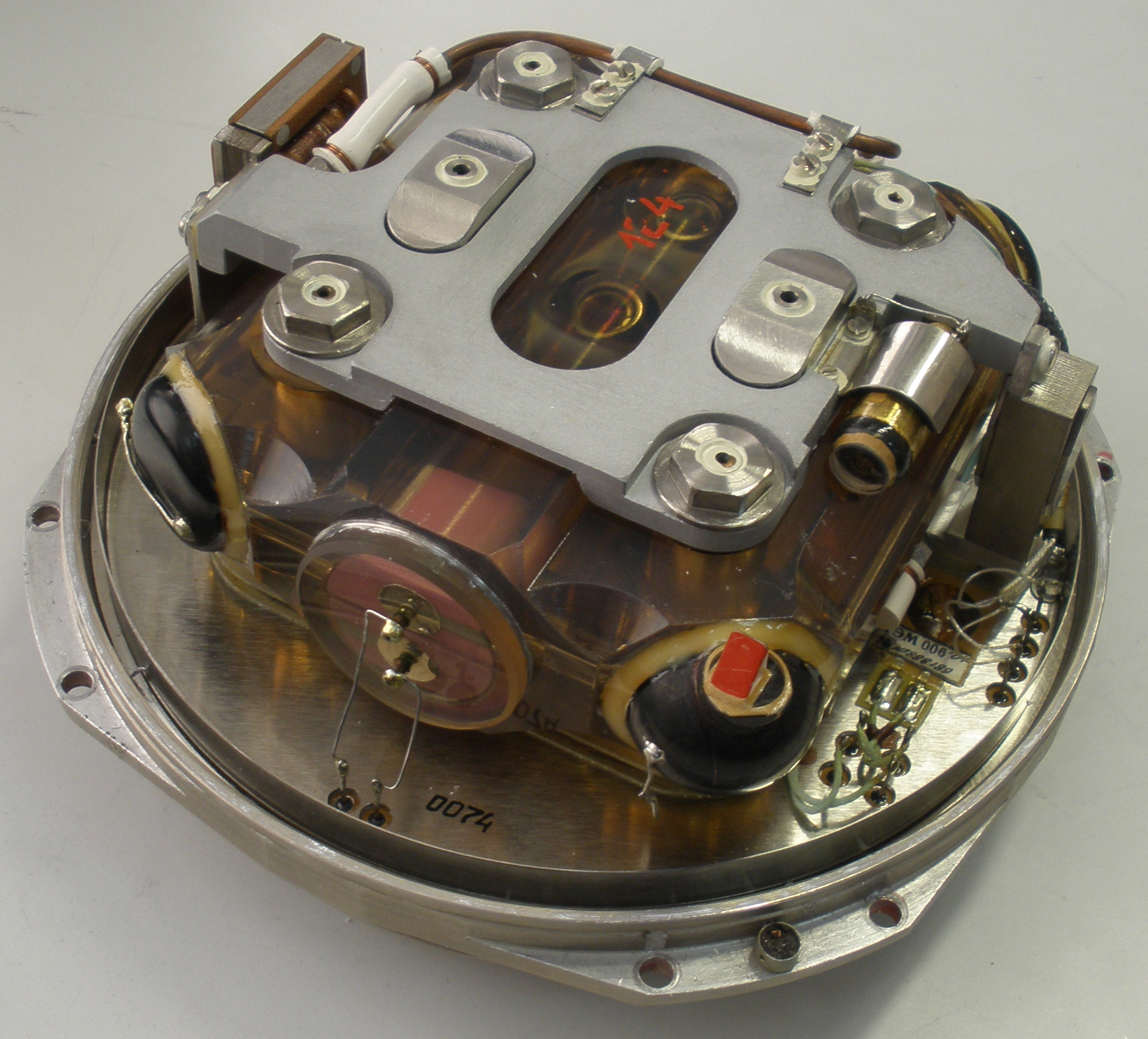 KM-11-1A laser gyro produced by NII «Polyus» with cover removed